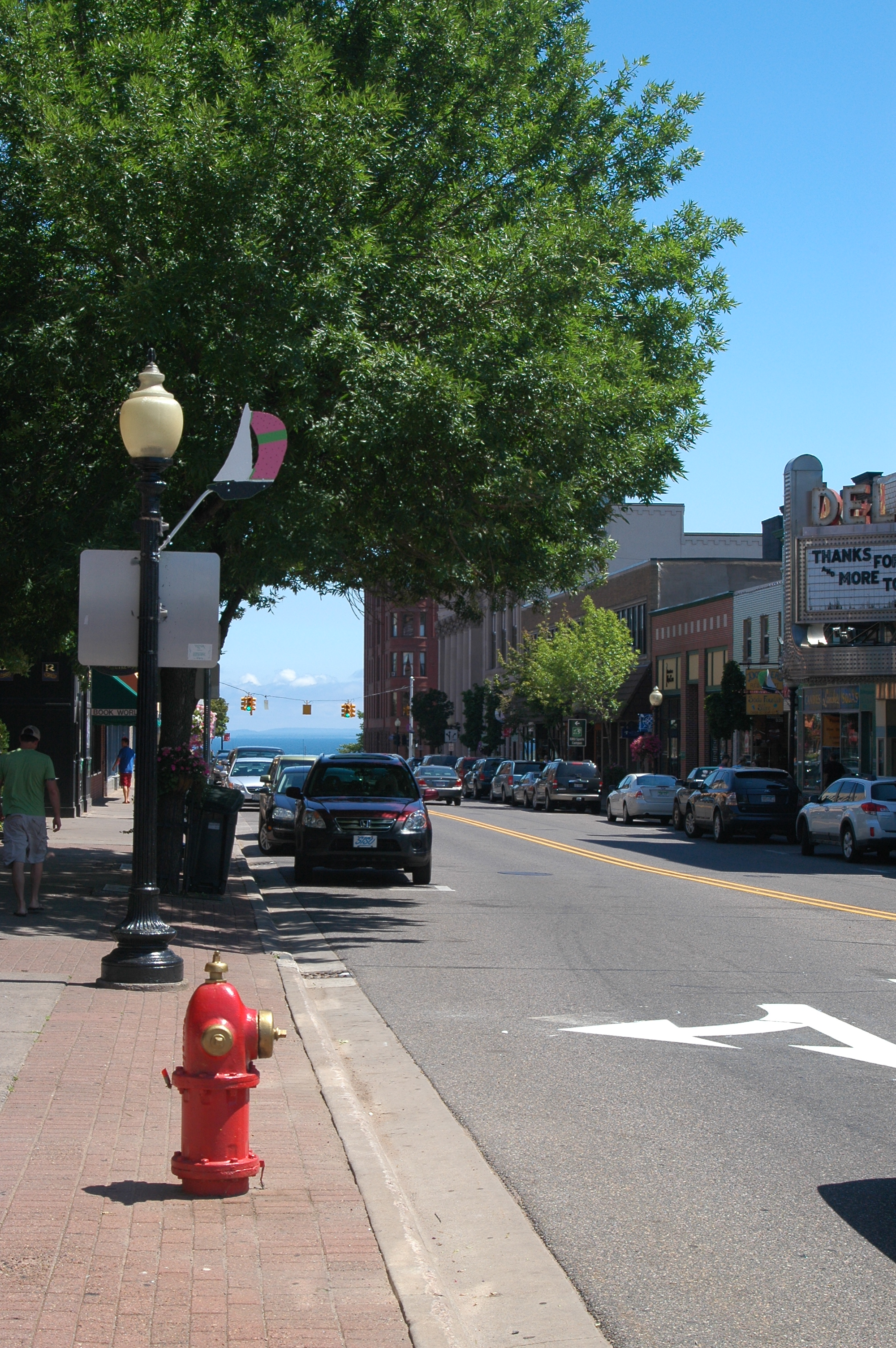 Washington Street downtown Marquette, Michigan, United States